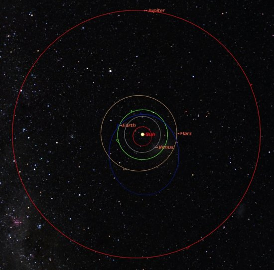 The bright blue line in the diagram above shows the orbit of the Russian meteor prior to the meteor breaking apart over the city of Chelyabinsk.